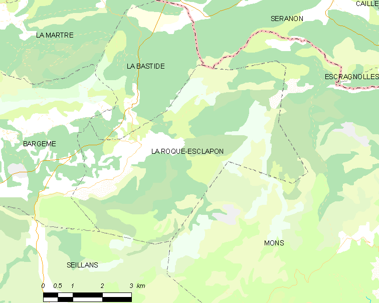 Map of French municipality La Roque-Esclapon